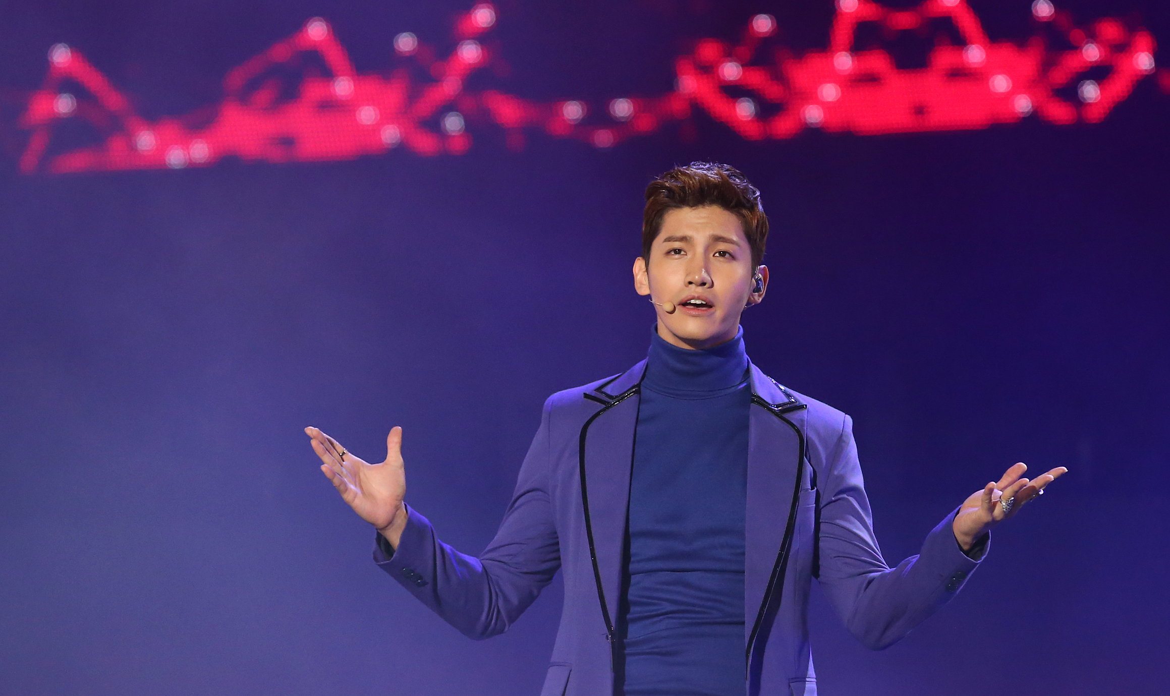 2012 K-POP World Festival Special Performance by TVXQ Changwon, Korea 2012.10.28. Ministry of Culture, Sports and Tourism Korean Culture and Information Service Jeon Han 2012 K-POP 월드 페스티벌 동방신기 東方神起 축하공연 경상남도 창원시 문화체육관광부 해외문화홍보원 코리아넷 전한